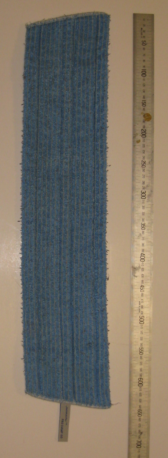 Mop for wet use, looped microfiber, velcro back, 60 cm